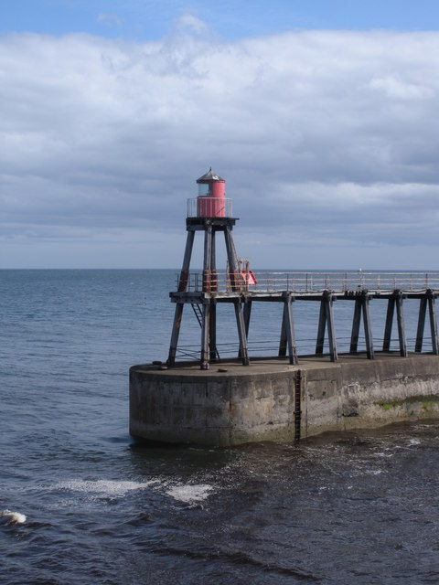 Light at the end of East Pier, from West Pier, Whitby